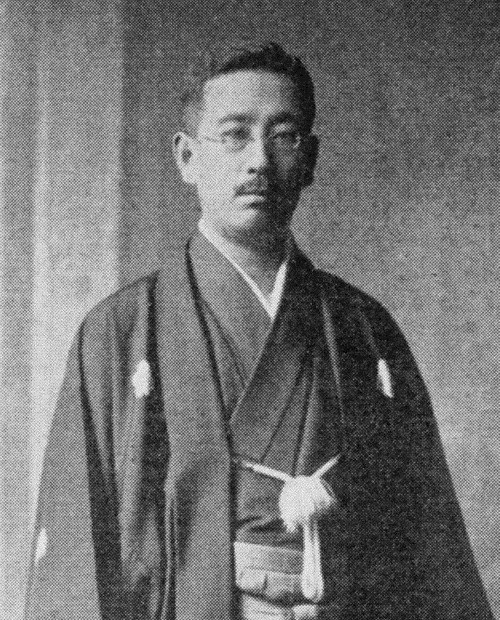 Masayasu Okudaira